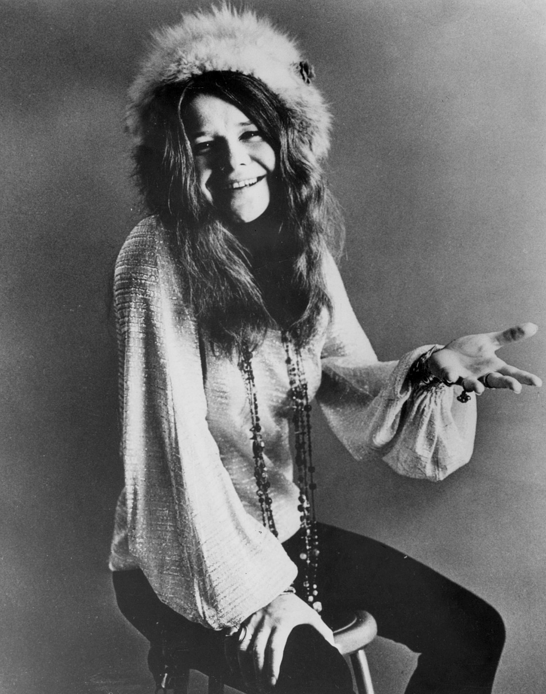 Publicity photo from photo session of Janis Joplin.